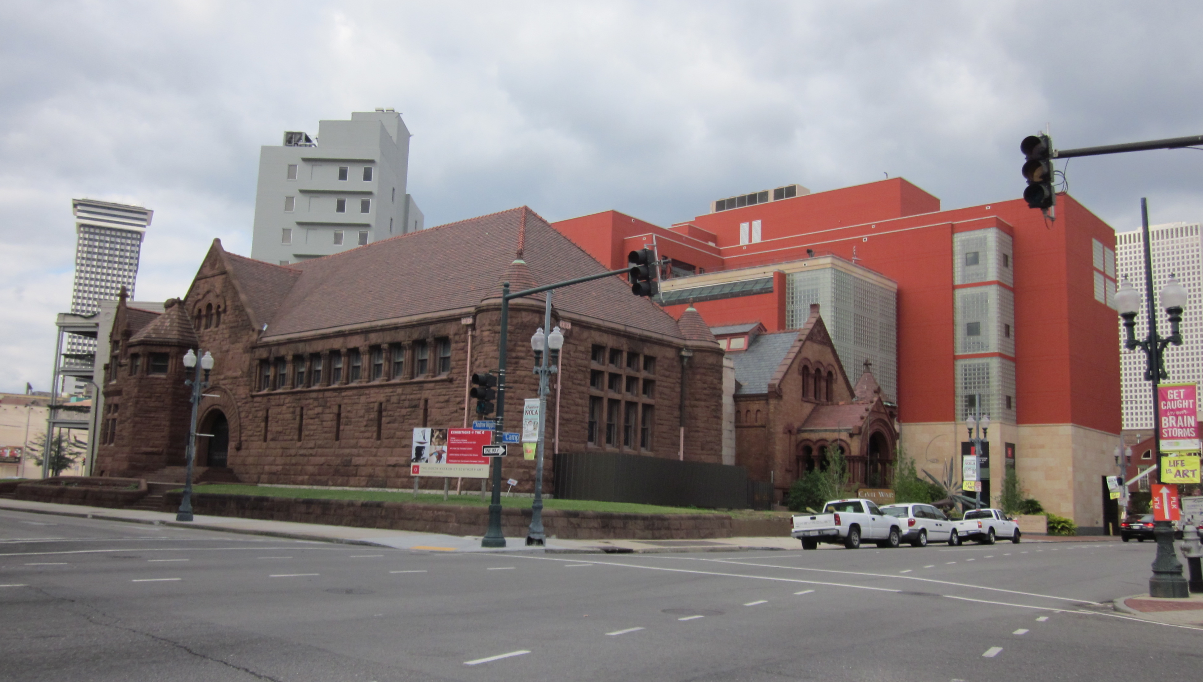 New Orleans: Camp Street at Andrew Higgins (formerly named as part of Howard Avenue); looking towards the Howard Memorial Library Building. To its right is Confederate Memorial Hall and the Ogden Museum.